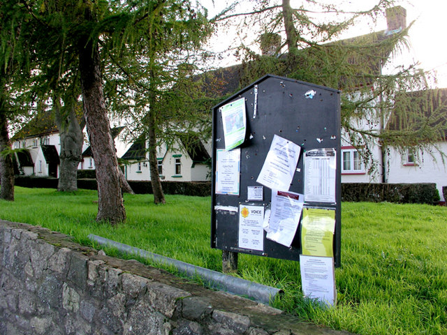 Michelston-le-Pit Village Green, Vale of Glamorgan This small village carries no through traffic, being at the end of a "Cul de sac" about a mile from the nearest main road